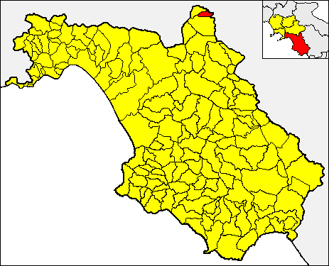 Locator map of the municipality of Santomenna (red) within the Province of Salerno